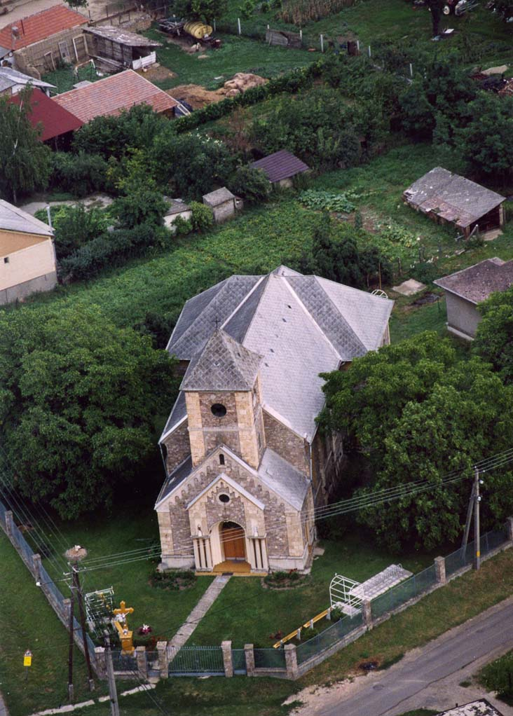 Roman Catholic church in Megyaszó, Hungary, aerial photography